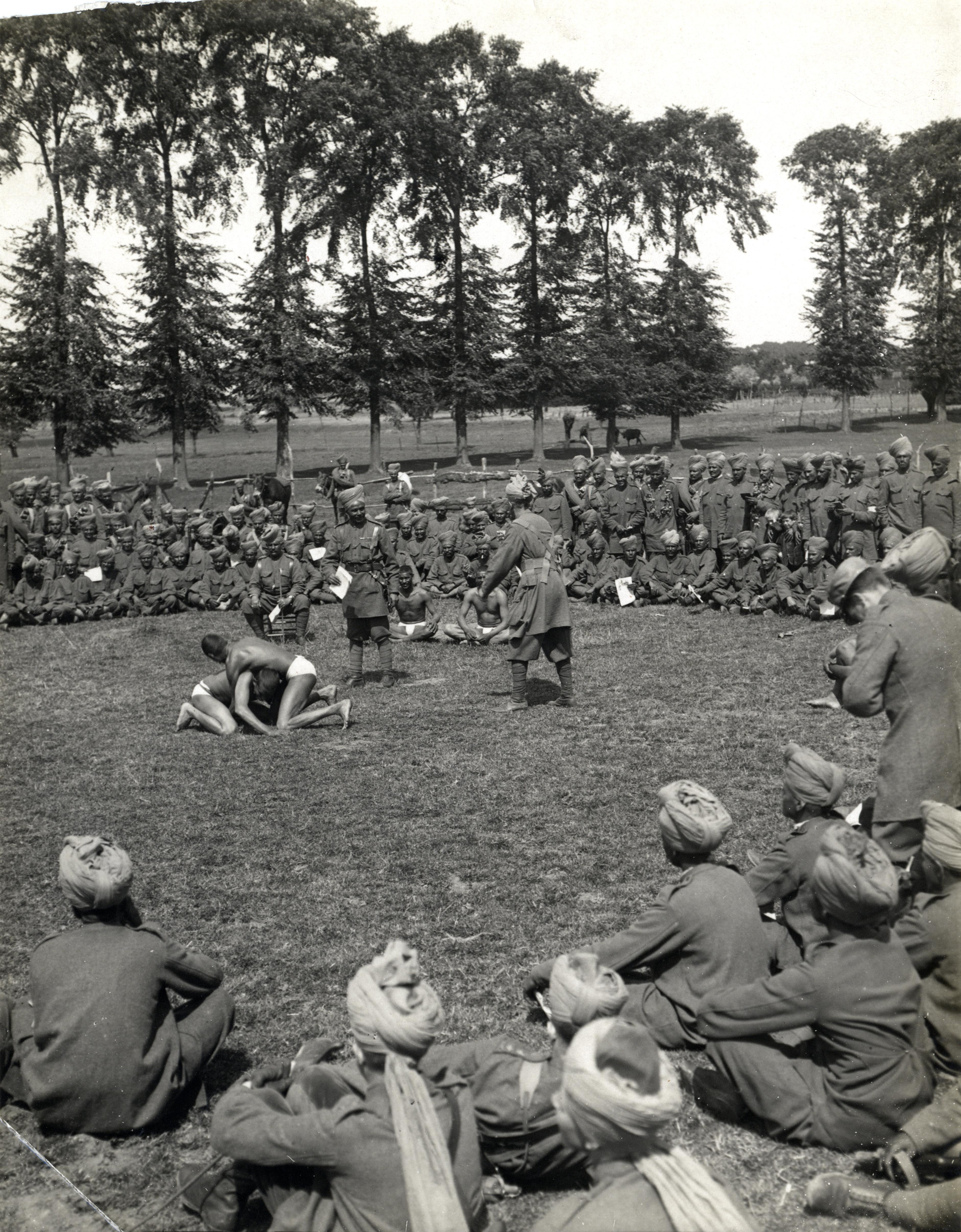 Reference: Photo 24/(143) From the Girdwood Collection held by the British Library. This image is part of the Europeana Collections 1914-1918 Date: 26 Jul 1915 See also: - View this at the British Library's site - Browse this collection on Europeana - and on Wikimedia Commons Please consider donating to the British Library.